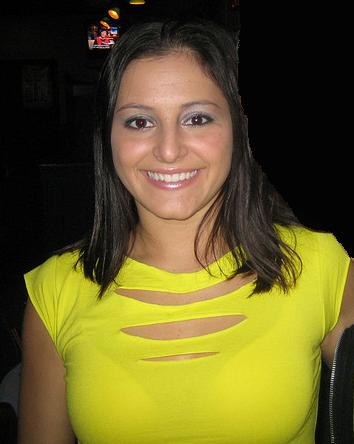 Dominique Moceanu Olympic medalist Camera: Canon PowerShot SD300 License on Flickr (2011-02-02): CC-BY-2.0 Flickr tags: Dominique Moceanu, Olympics